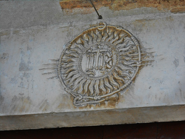 coat of arm